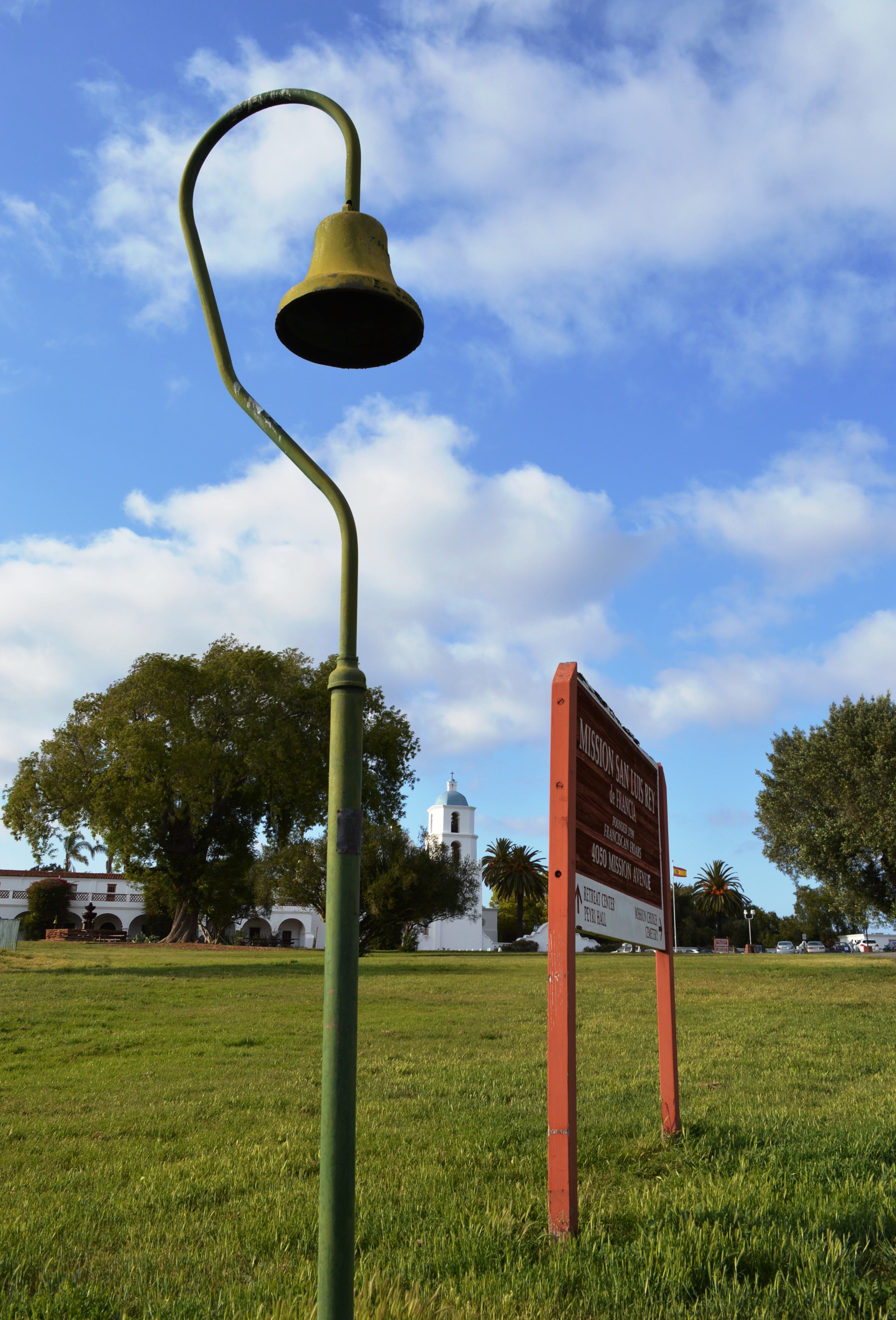 San Luis Rey Mission Church, Oceanside